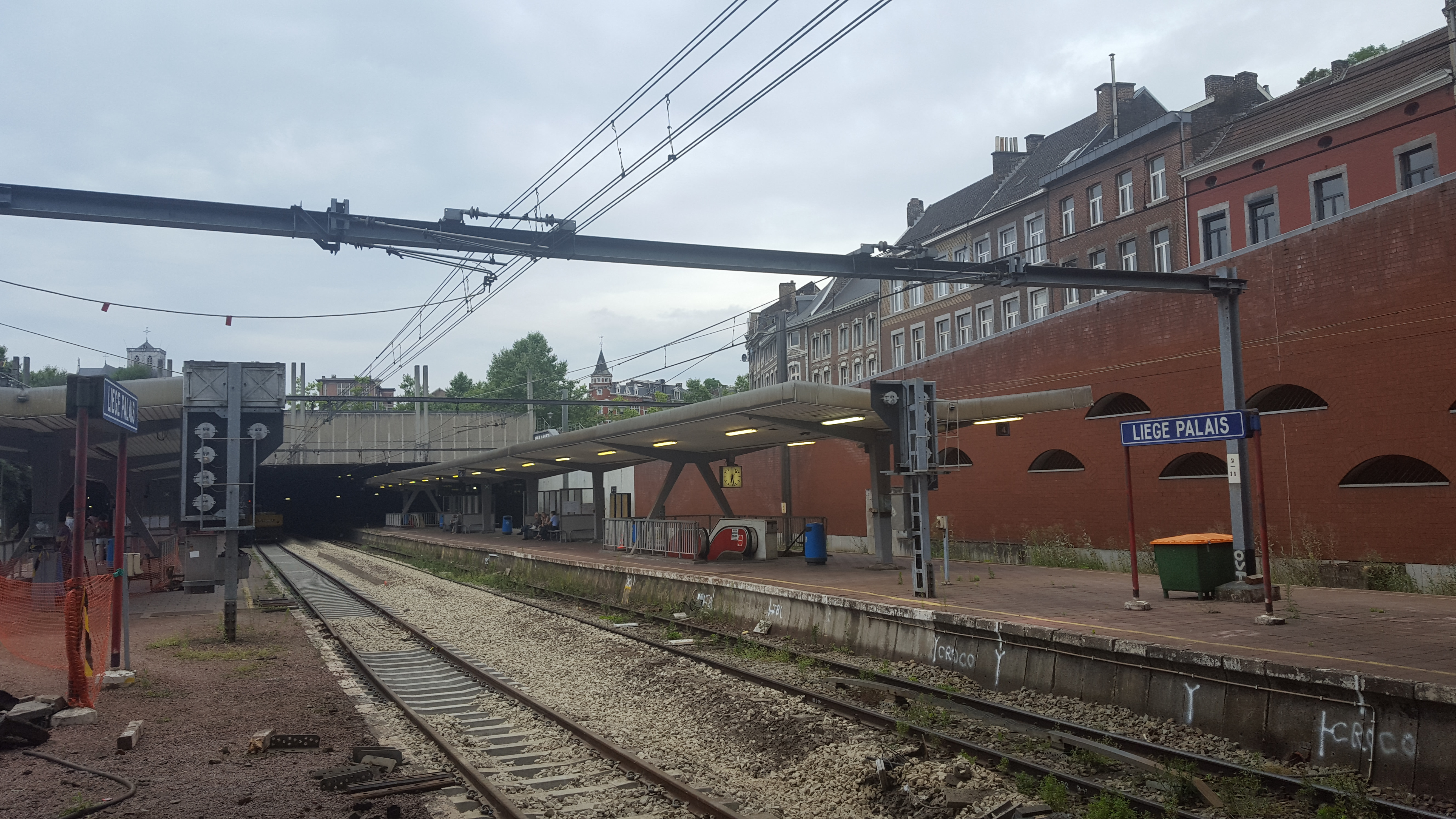 Liège-Palais train station